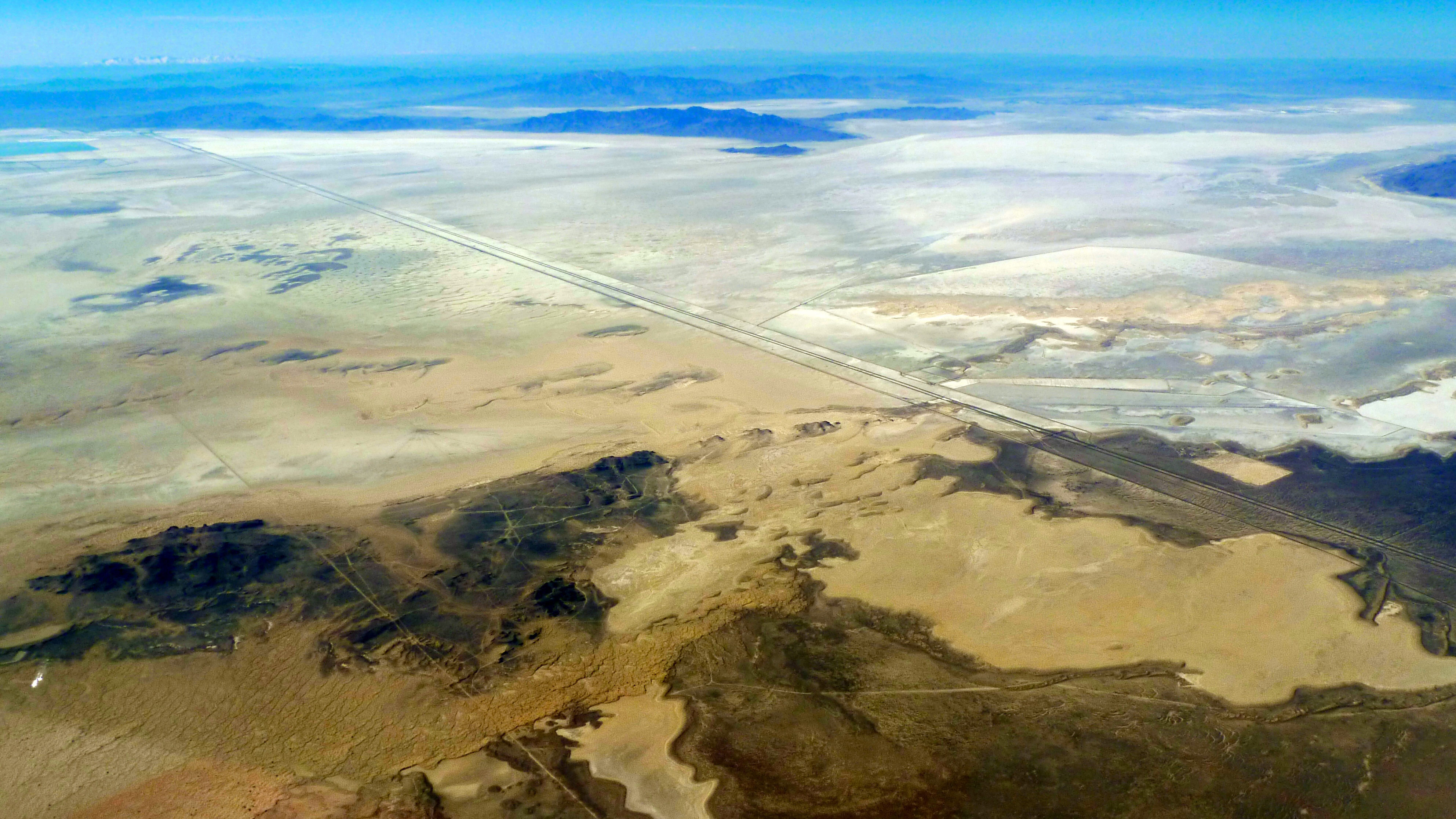 Bonneville Salt Flats aerial photo D Ramey Logan